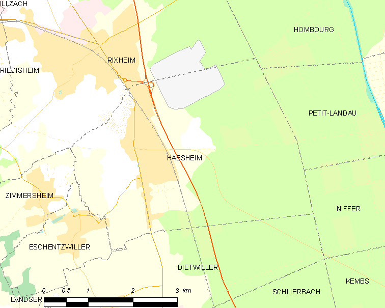 Map of French municipality